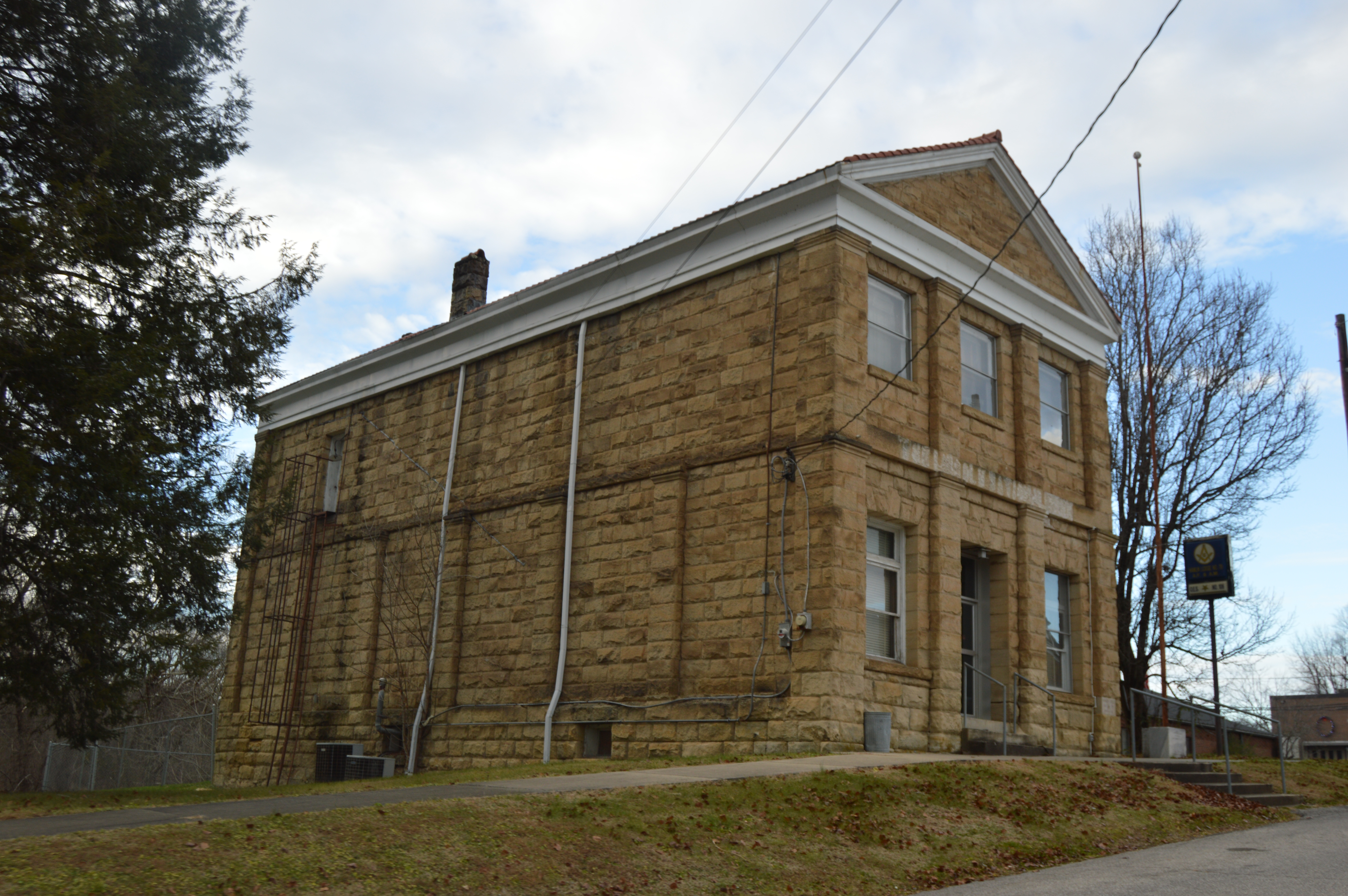 Front and southern side of the Lincoln National Bank, located at 215 Main Street in Hamlin, West Virginia, United States. Built in 1907, it is listed on the National Register of Historic Places.